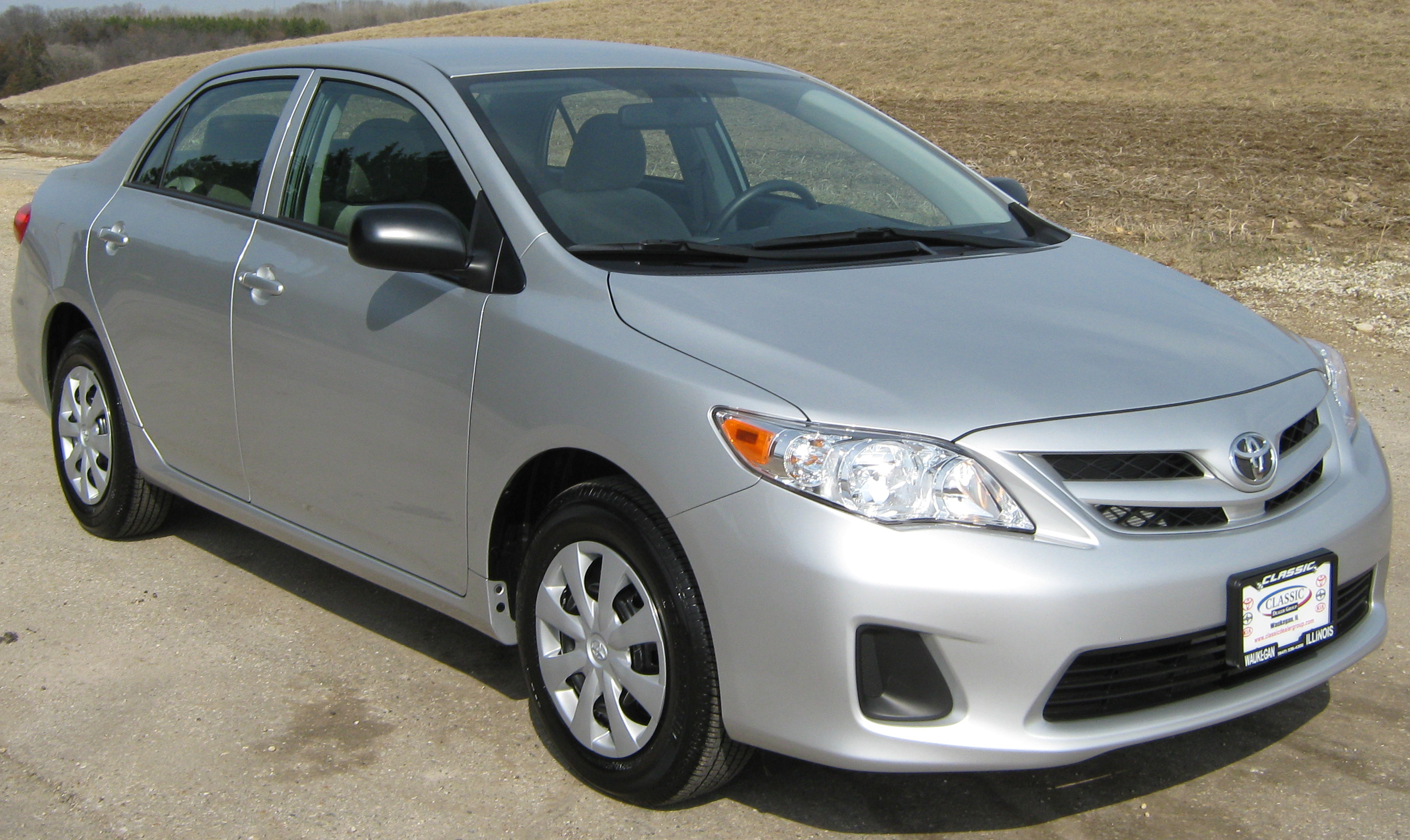 2011 Toyota Corolla photographed in USA.